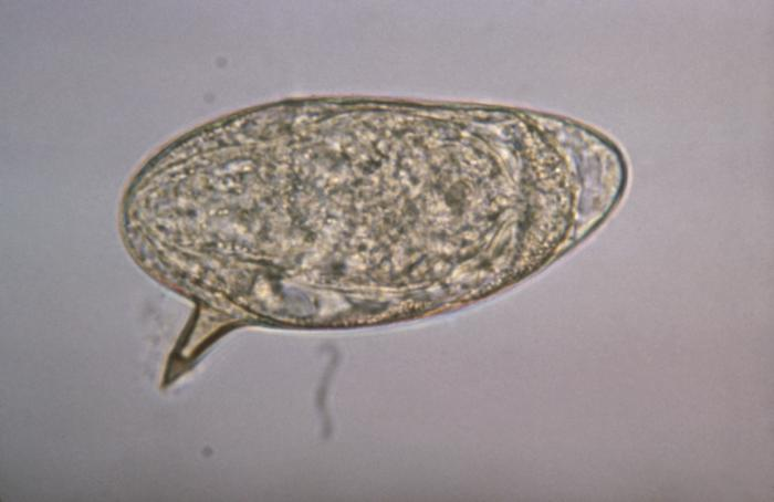 ID#: 4841 Description: This micrograph depicts an egg from the parasite Schistosoma mansoni, and reveals the egg’s characteristic lateral spine. S. mansoni eggs are large, measuring 114µm -180µm in length, and have a characteristic shape, with a prominent lateral spine near their posterior end. The anterior end is tapered, as well as slightly curved. Content Providers(s): CDC Creation Date: 1979 Copyright Restrictions: None - This image is in the public domain and thus free of any copyright restrictions. As a matter of courtesy we request that the content provider be credited and notified in any public or private usage of this image.